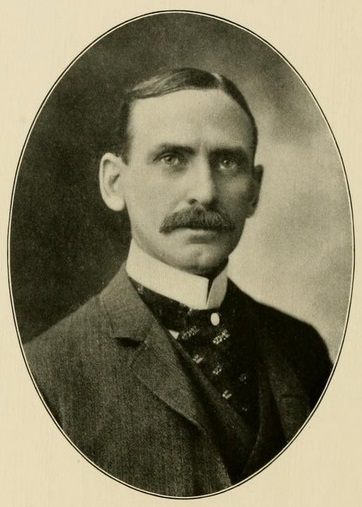 Francis Emanuel Shober, Congressman from New York